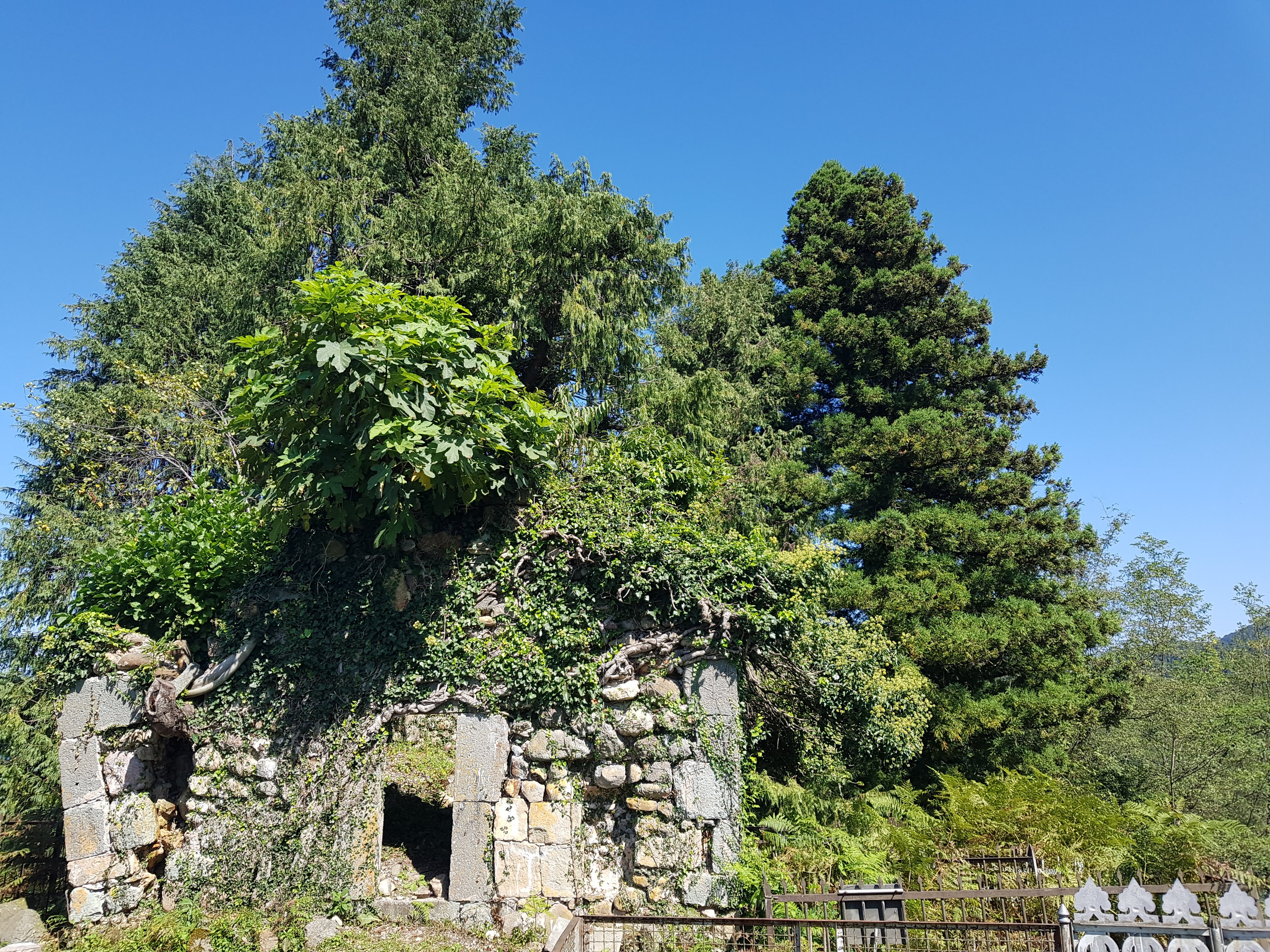 Intskirveli church ruins1